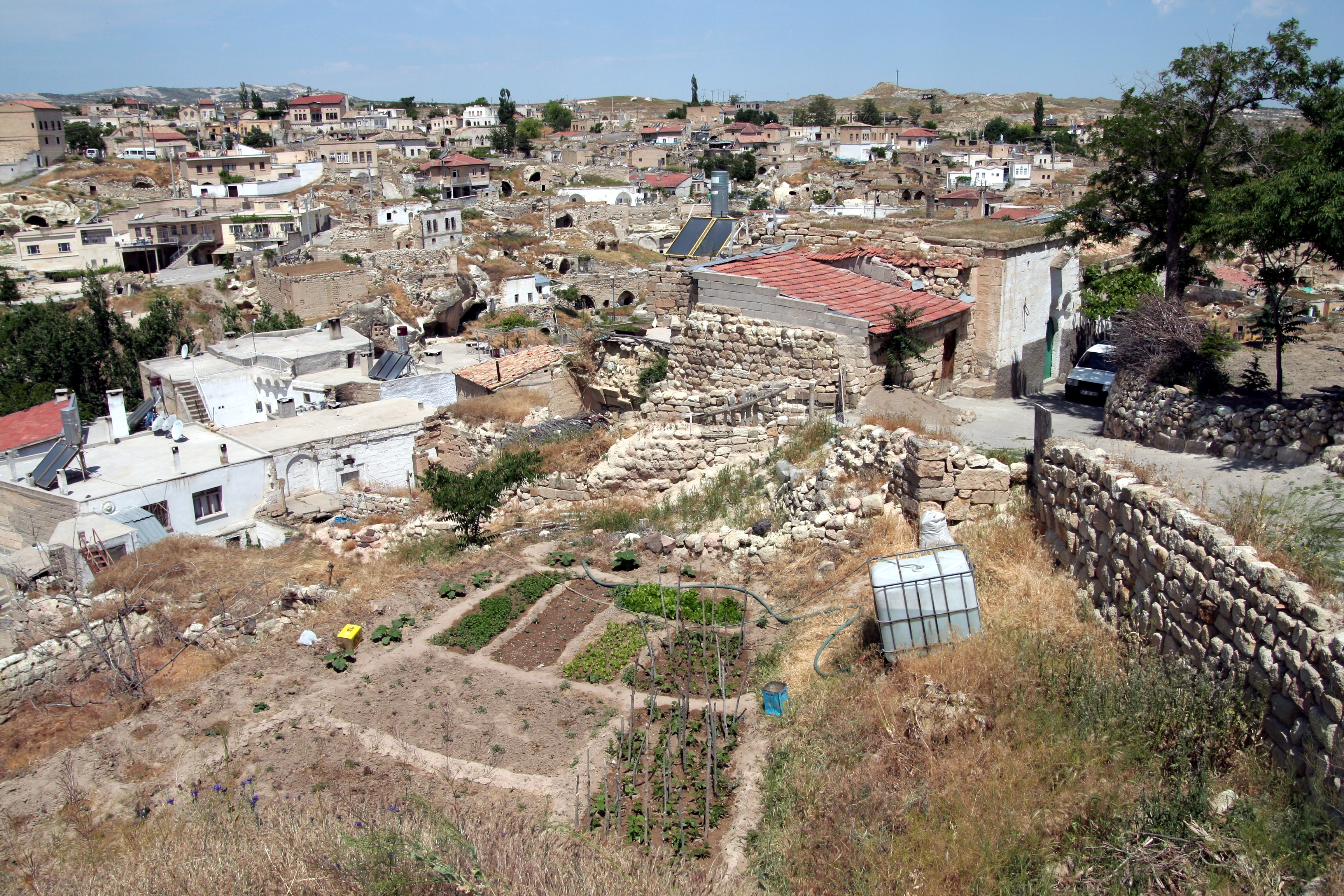 The town of Mustafapaşa, Cappadocia.